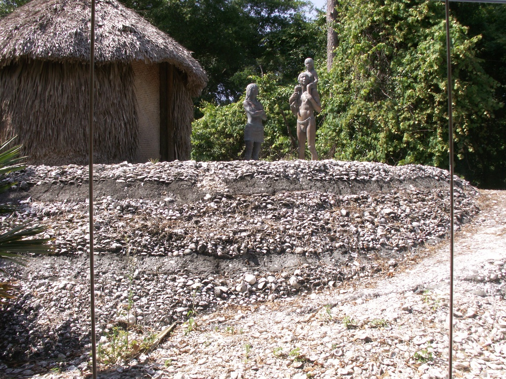 A reconstruction of a Calusa chickee and terraces, on display at the Florida Museum of Natural History